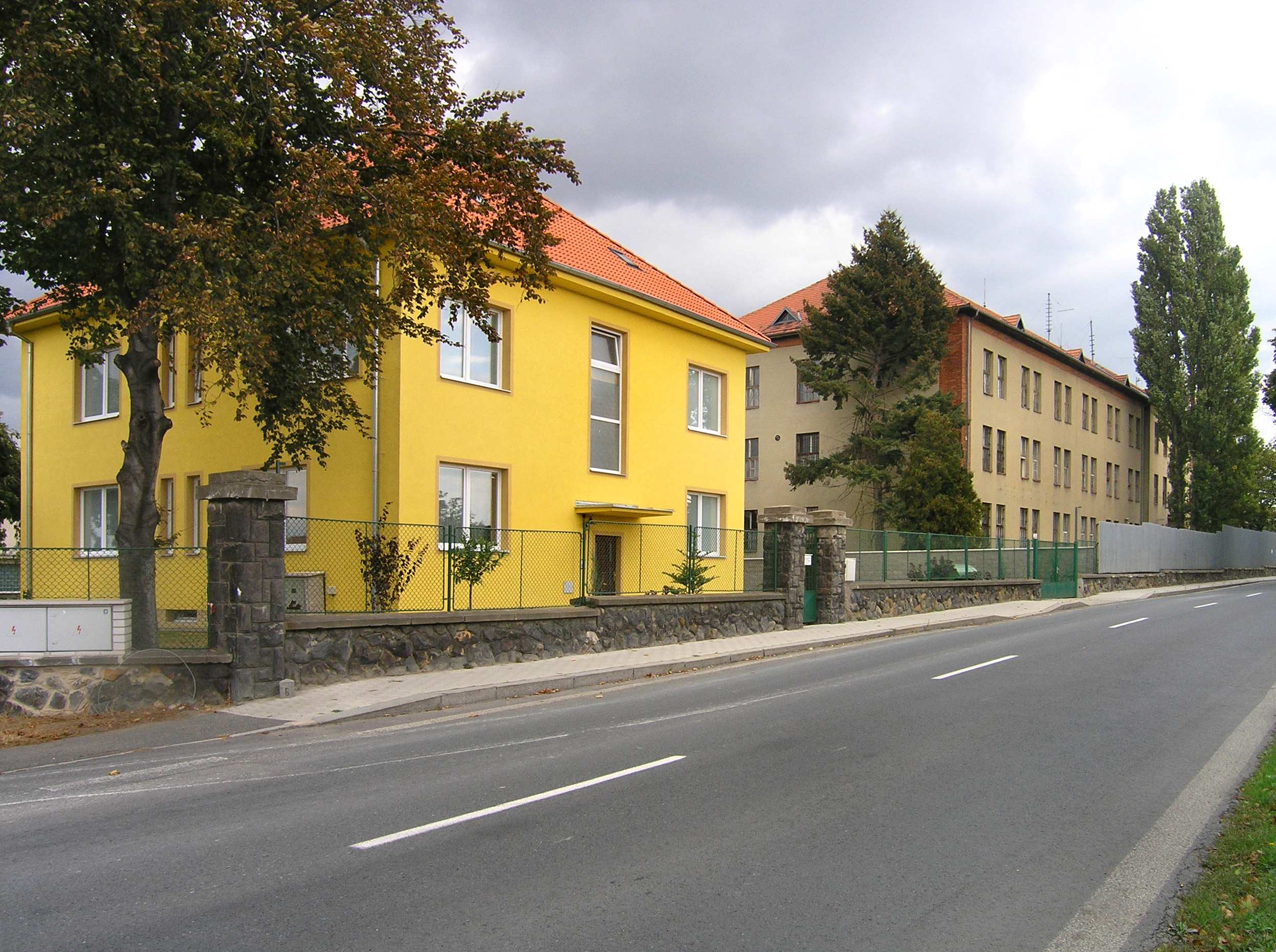 Barracks in Kostelec nad Labem, Czech Republic